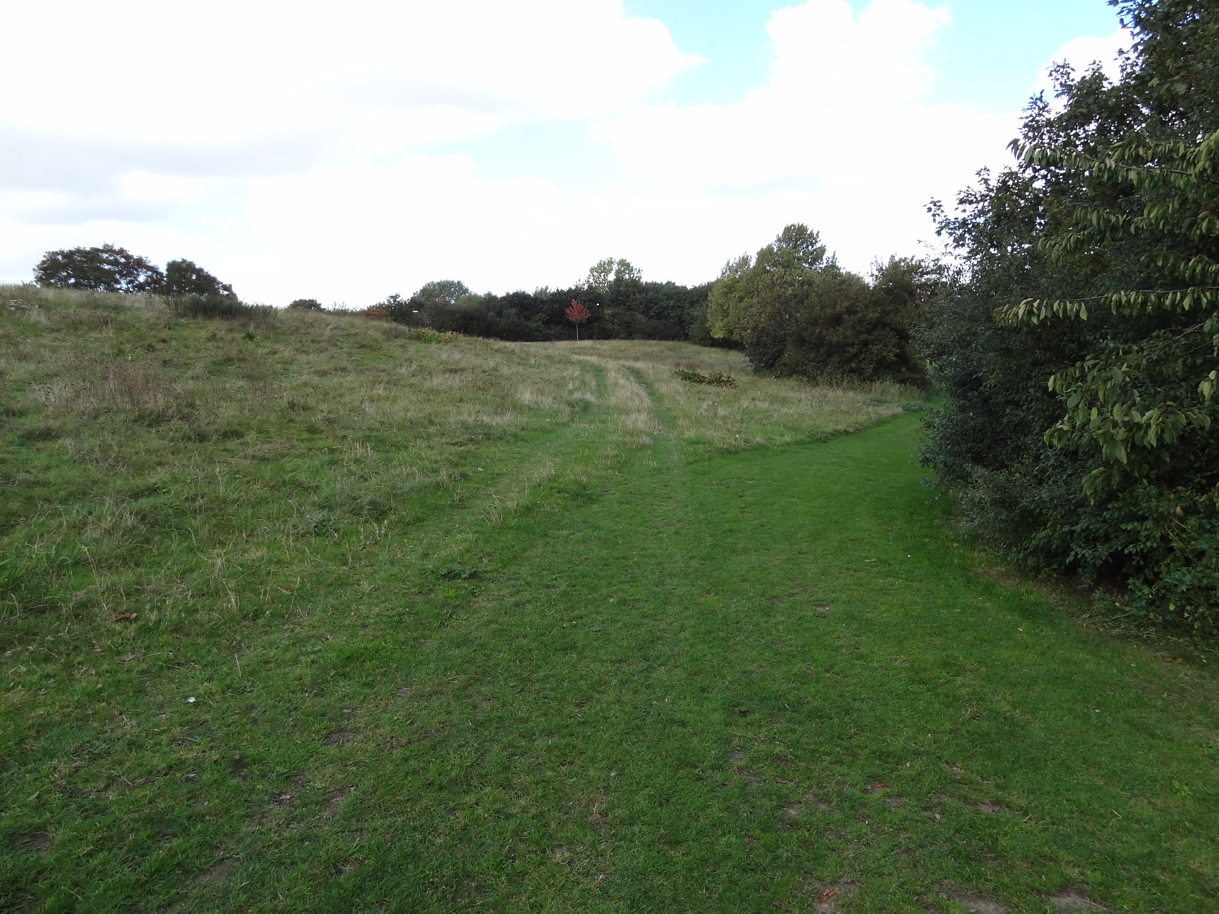 Beckton District Park South, Newham, London